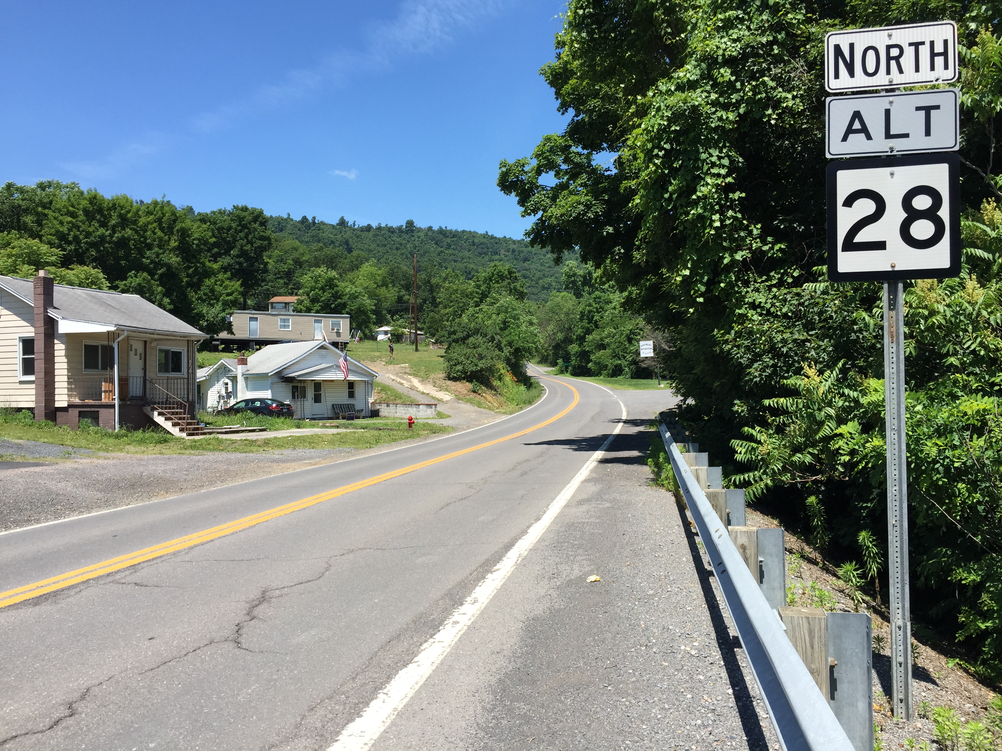 View north along West Virginia Route 28 Alternate (Knobley Street) just north of West Virginia Route 28 in Wiley Ford, Mineral County, West Virginia